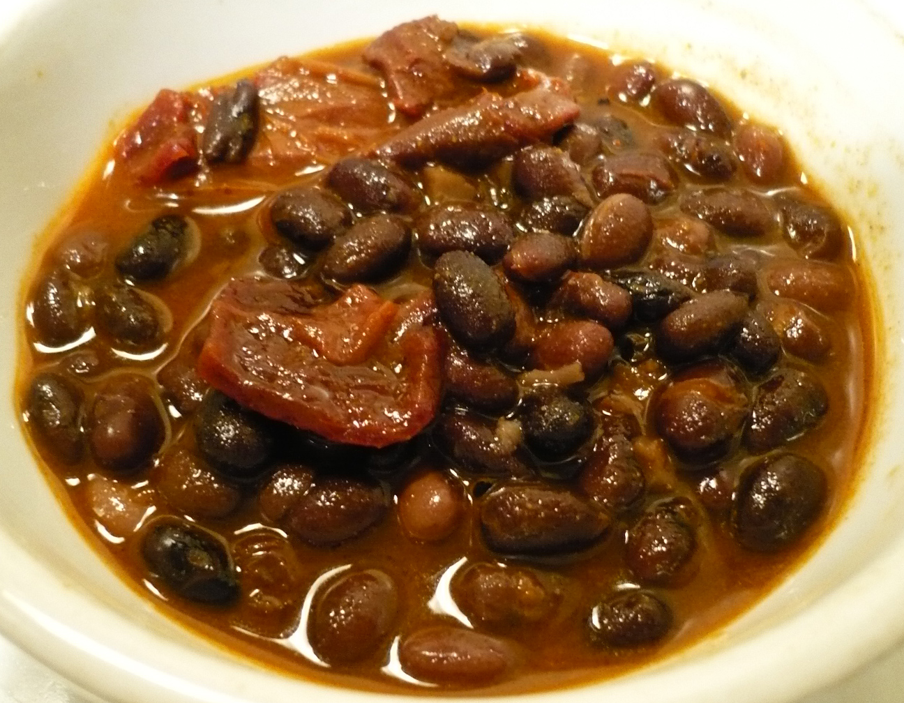 A bowl of Mexican-style vegetarian black bean stew (frijoles negros). Photo taken in Kent, Ohio with a Panasonic Lumix digital camera (model DMC-LS75). The ingredients include black turtle beans (soaked and boiled from dried beans), sea salt, olive oil, dried oregano leaves, powdered cumin seed, cayenne pepper, black pepper, roasted onion and garlic, dried ancho and morita chili peppers, tomato paste, and dark beer.